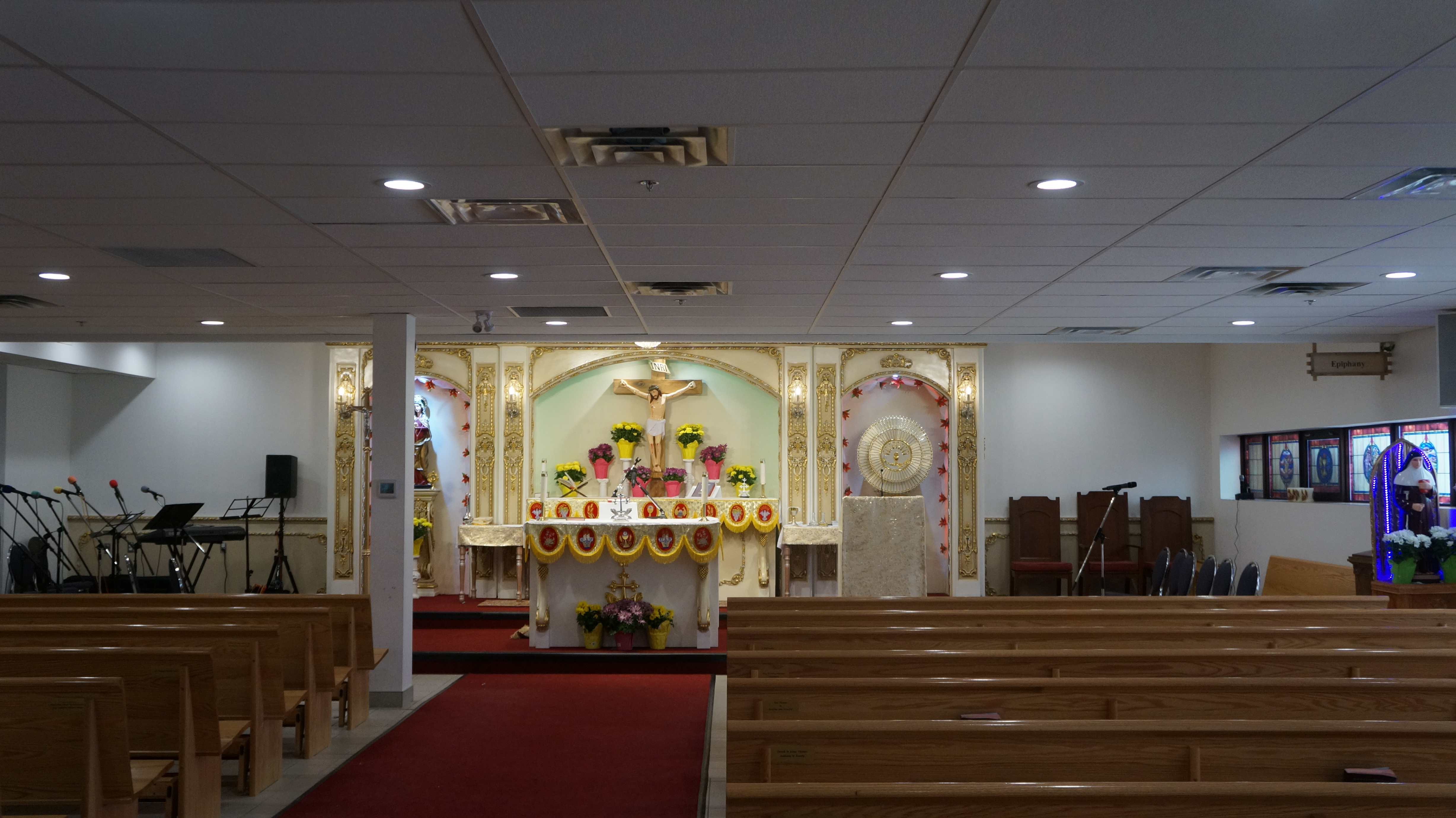 The interior of St. Alphonsa Syro Malabar Catholic Cathedral in Mississauga, Ontario.